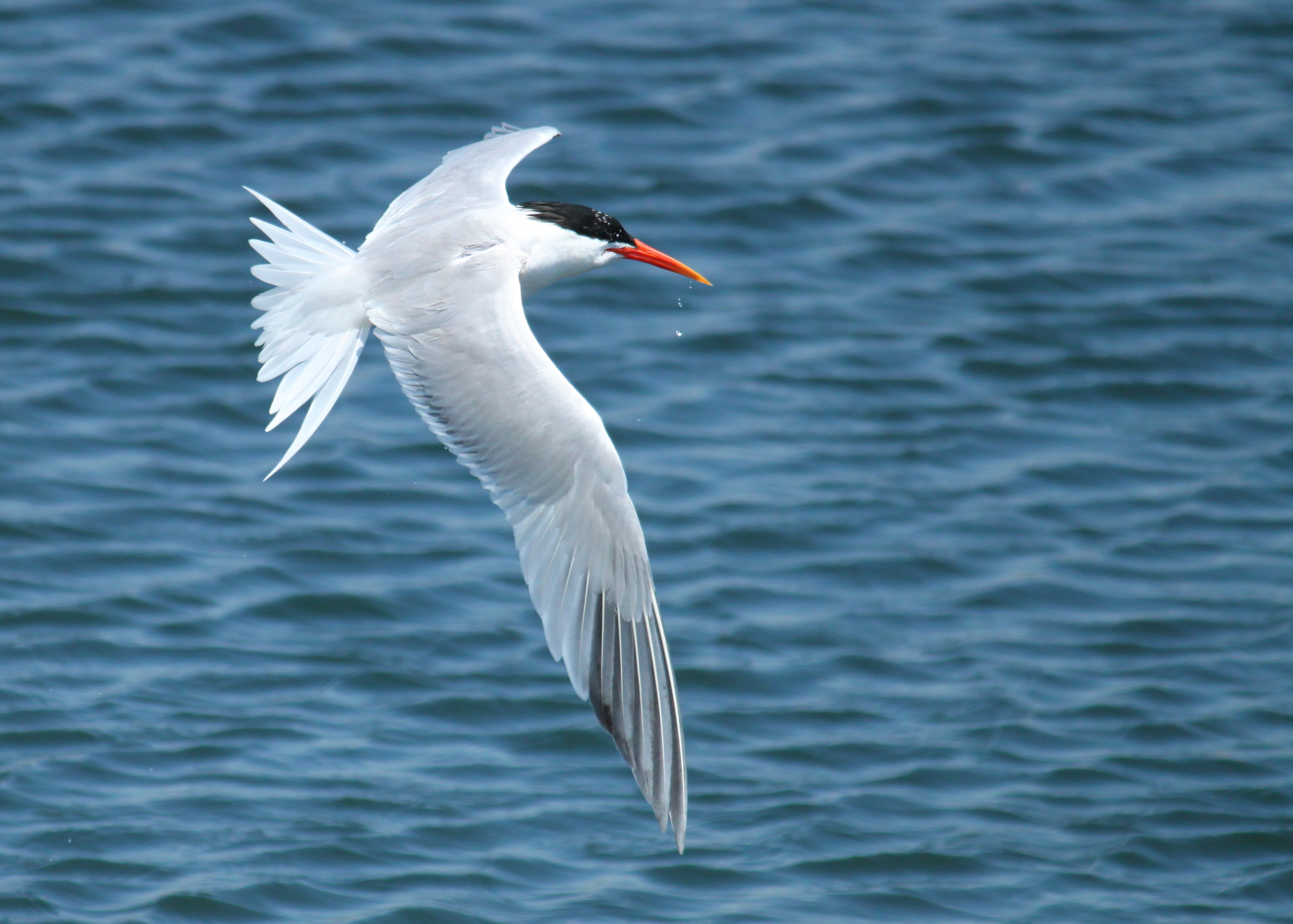 An Elegant Tern fishing at the Bolsa Chica Ecological Reserve in southern California